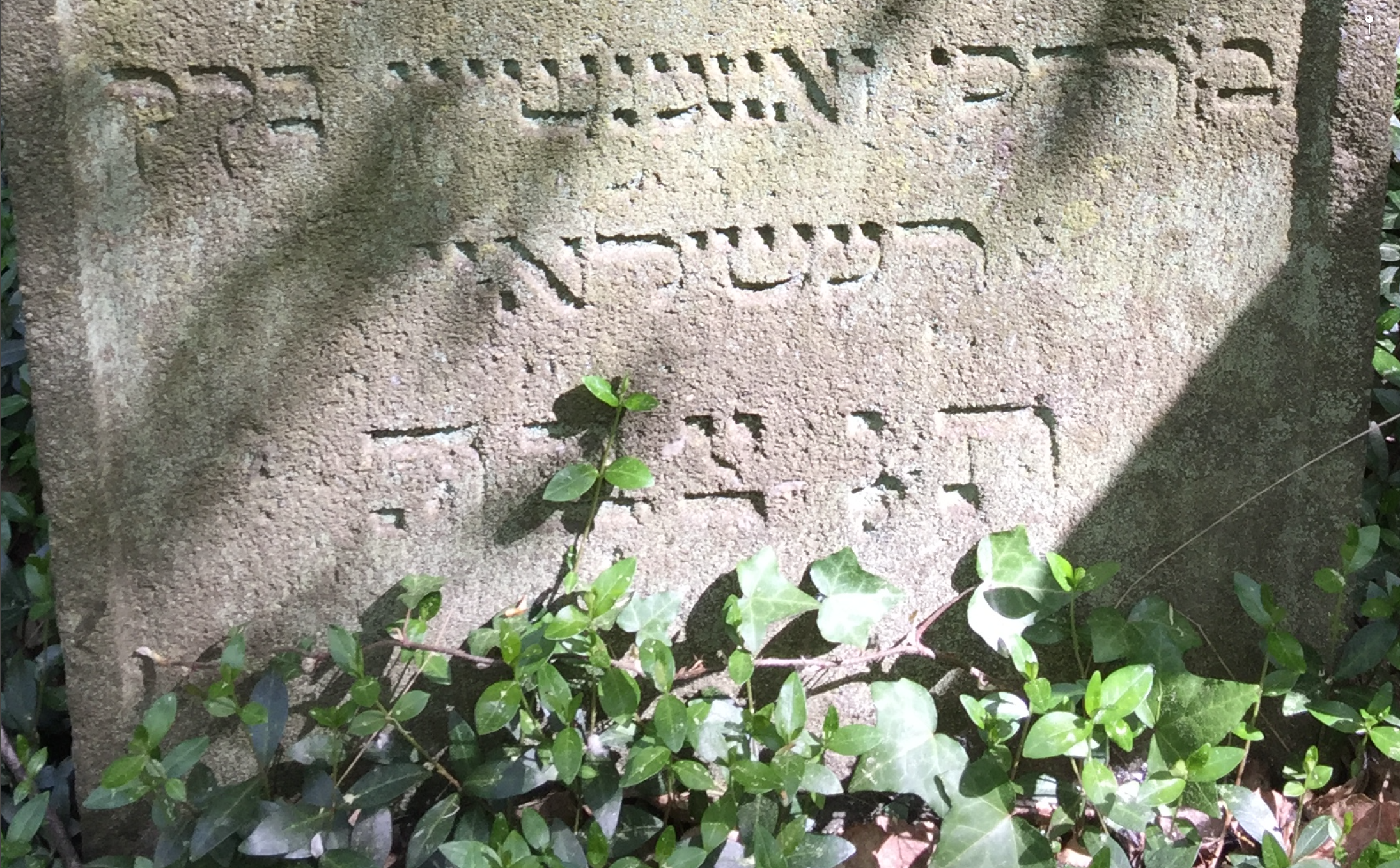 Epitaph of one of the matzevot at the Jewish cemetery of Hresihlavy states the Hebrew/Yiddish name of the village - רעשילאיי - Rayshloy.